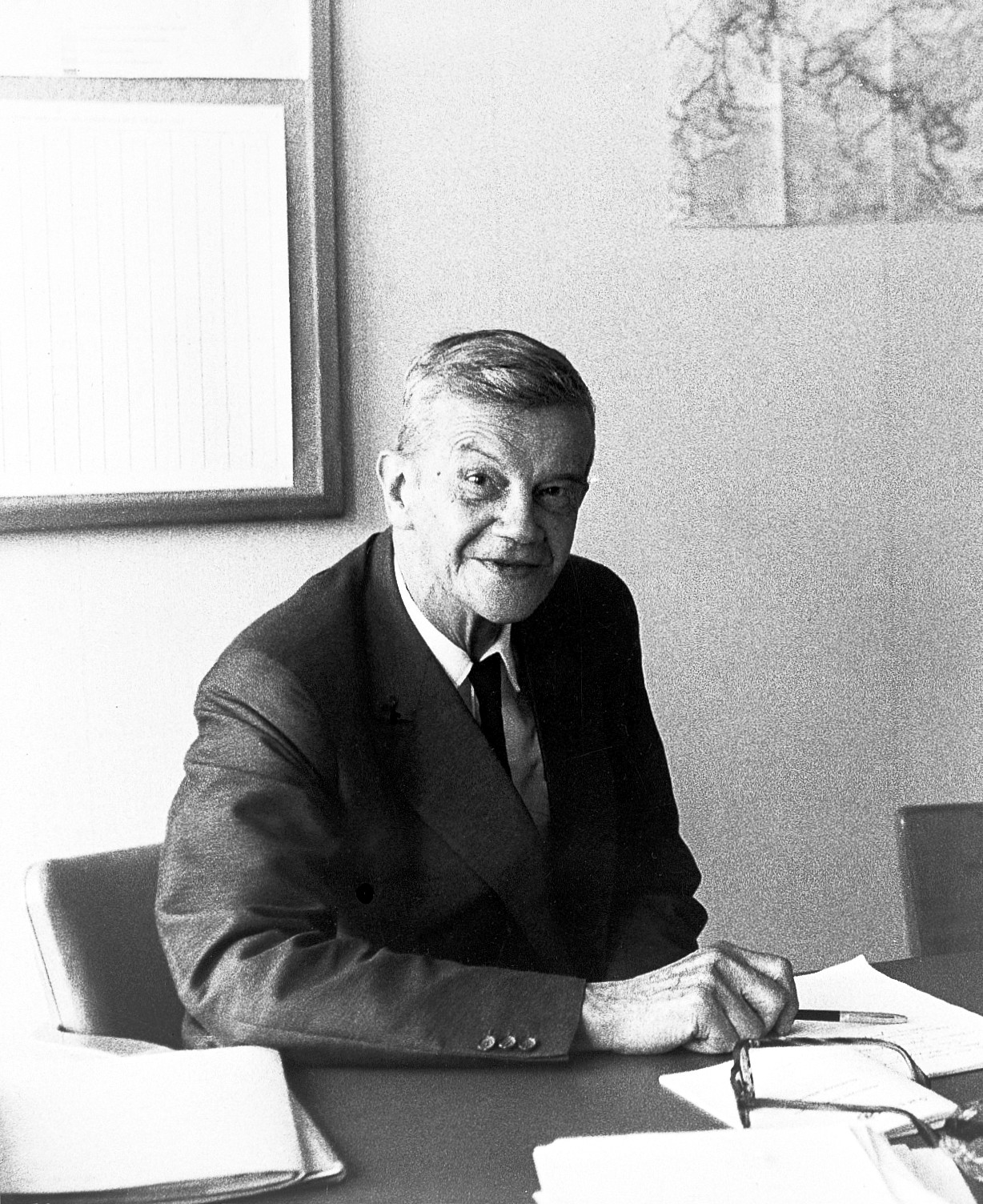 Werner Schulemann. Photograph by L.J. Bruce-Chwatt. Iconographic Collections